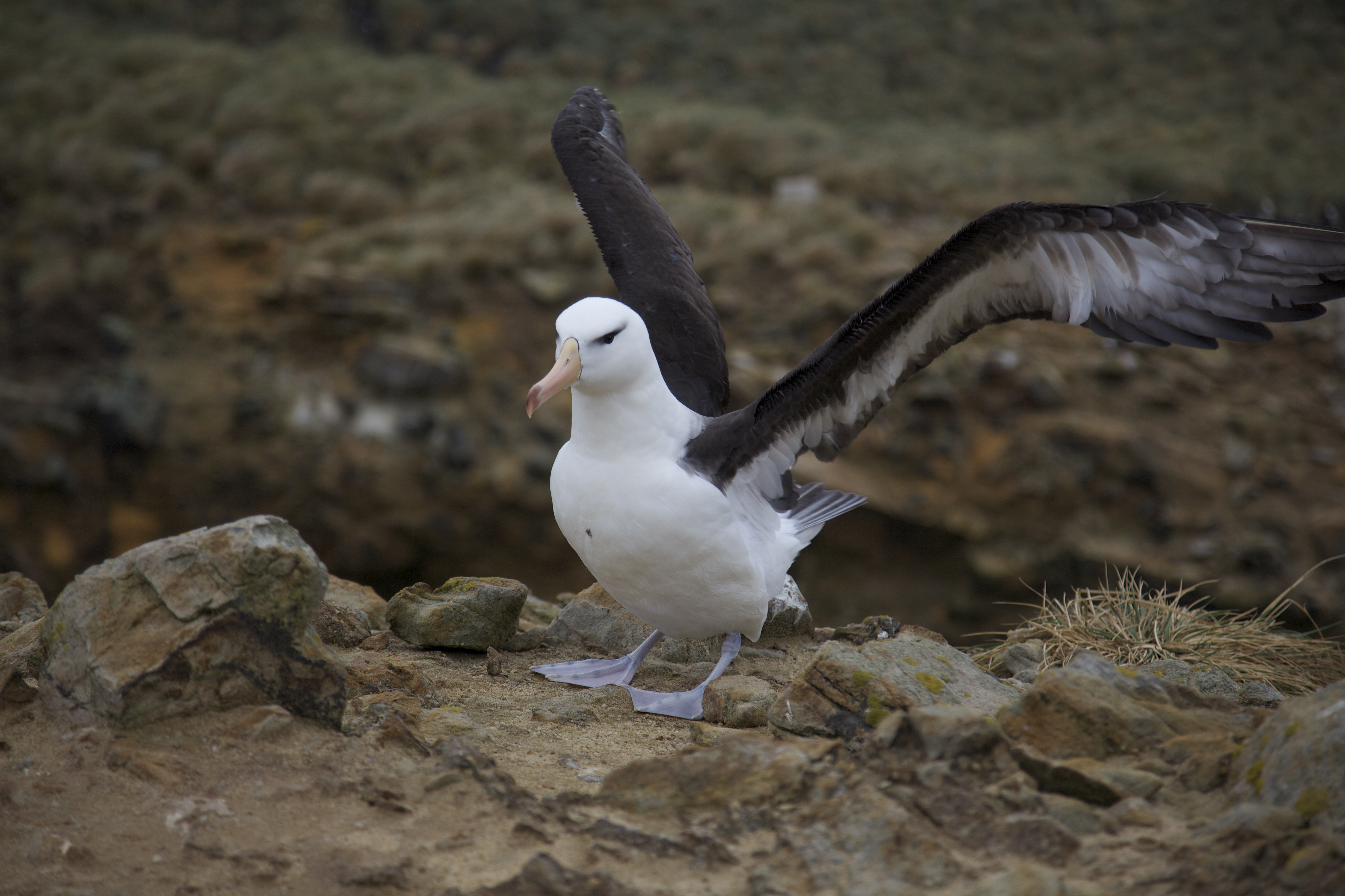 Black-browed Albatross on the Falkland Islands.